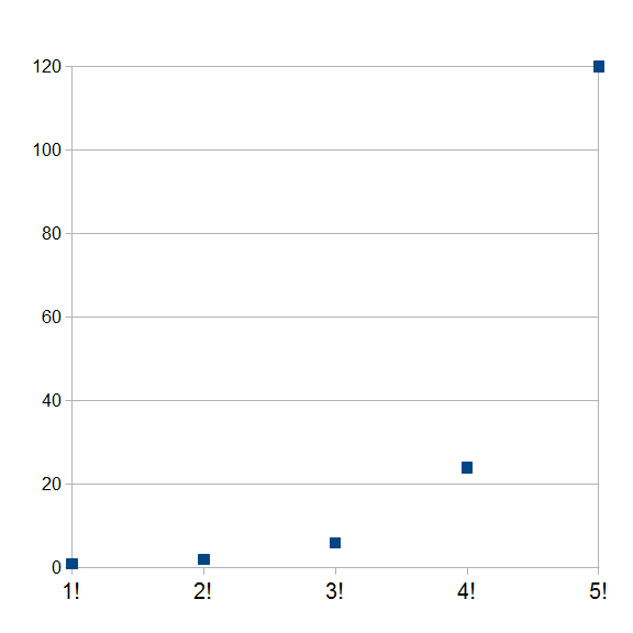 Factorial of numbers 1-5. X axis = number. Y axis = factorial.